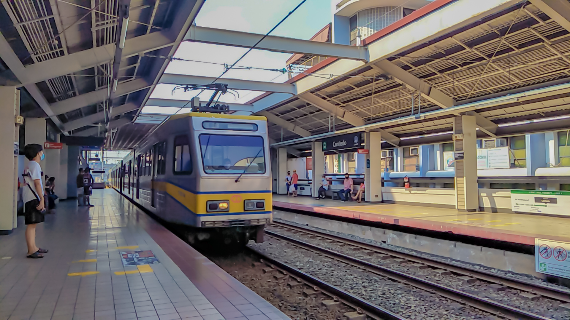 A southbound 2G (1100 class) train decelerates for a brief stop at Carriedo station. The passenger traffic was low, owing to the fact that this was taken during the "GCQ" (General Community Quarantine) in the Philippines where limited public transportation was allowed.